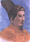 Nguyen Anh, the future Emperor Nguyễn Thế Tổ.